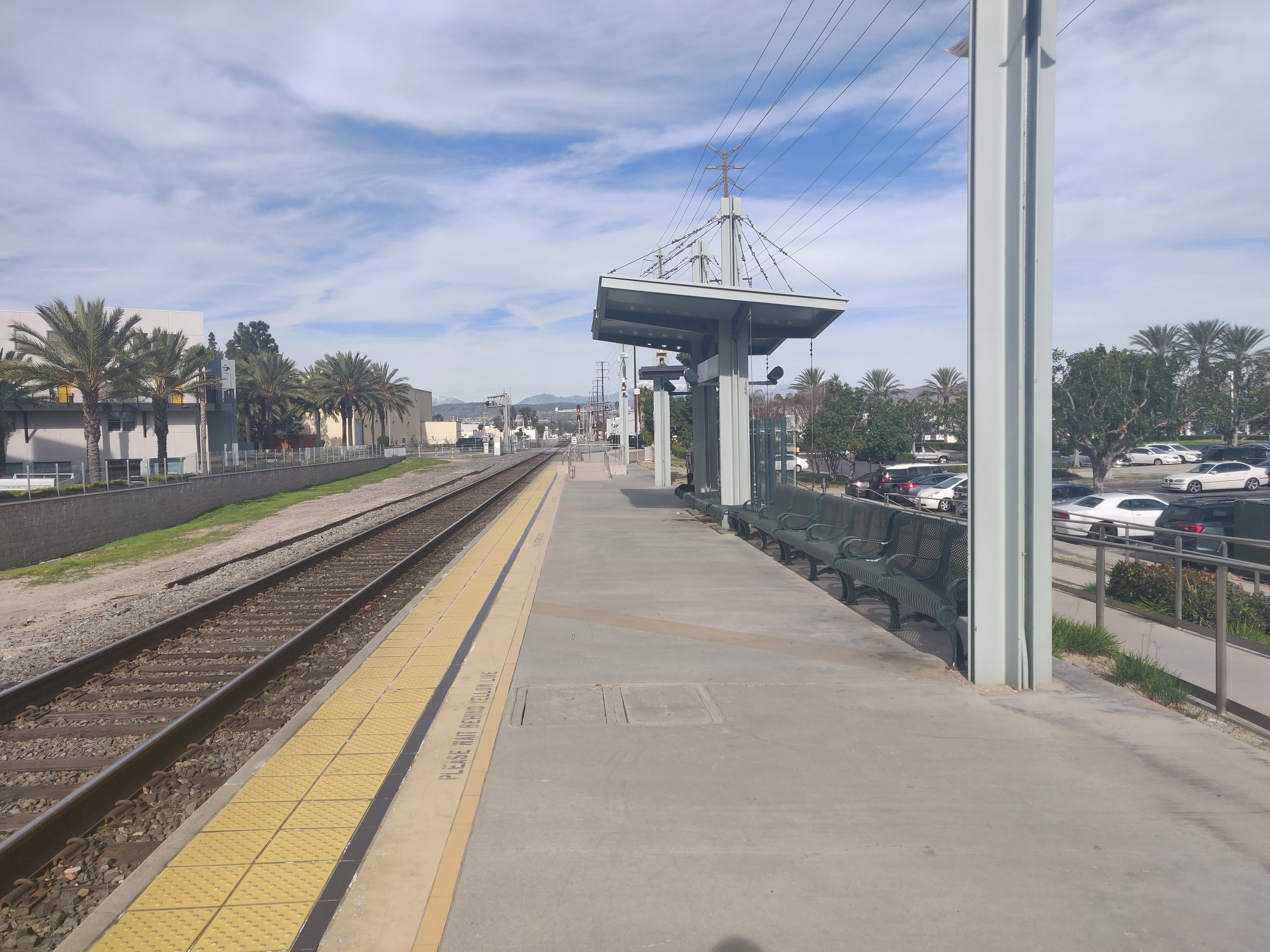 Platfrom at Anaheim Canyon Metrolink Station in Anaheim Canyon, CA